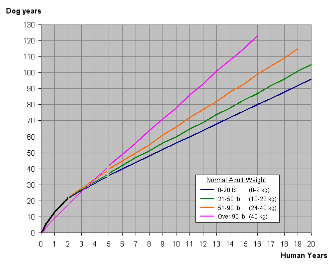 updated to be fixed from previous version.